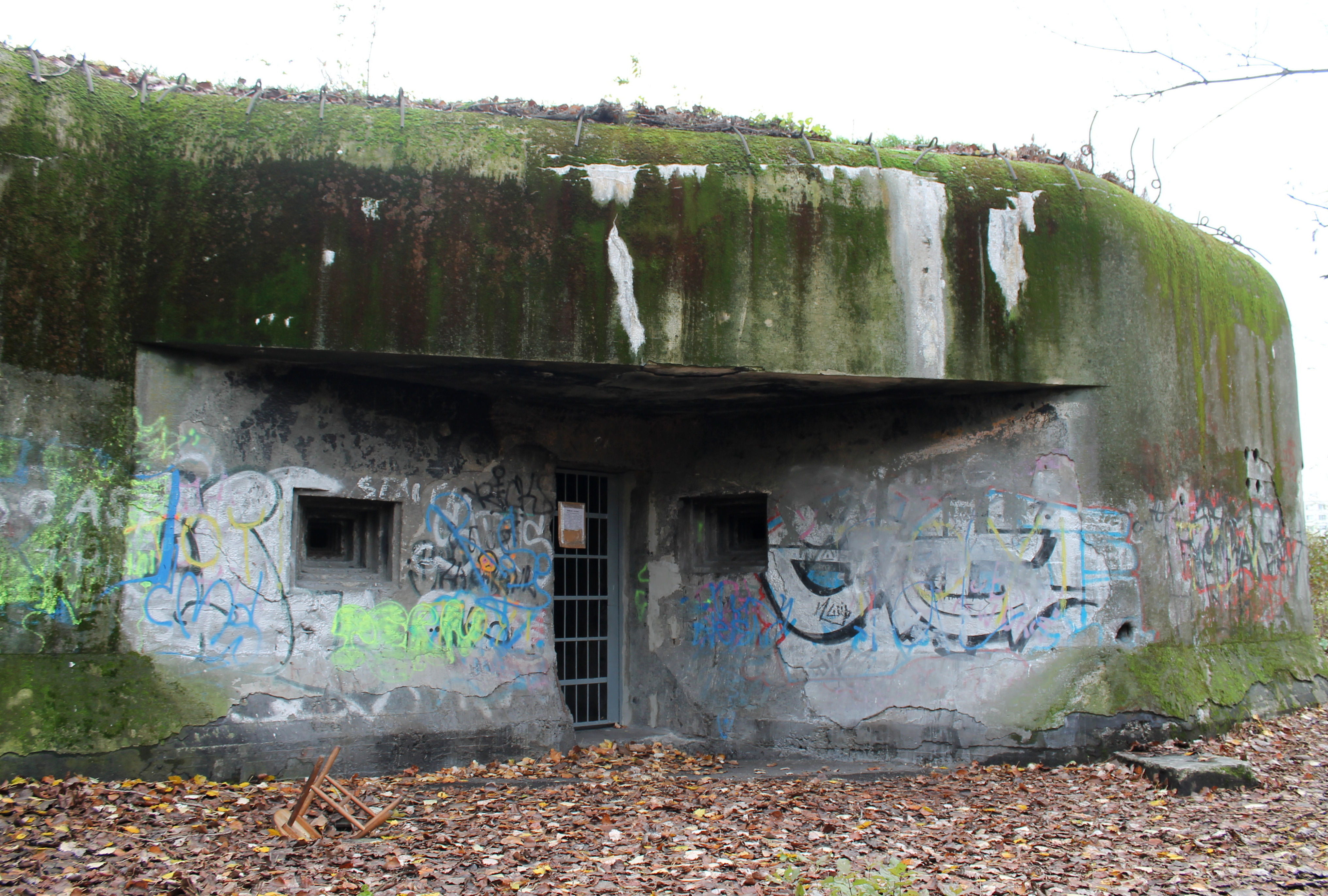 B-S 13 Stoh infantry casemate, Bratislava, Slovakia